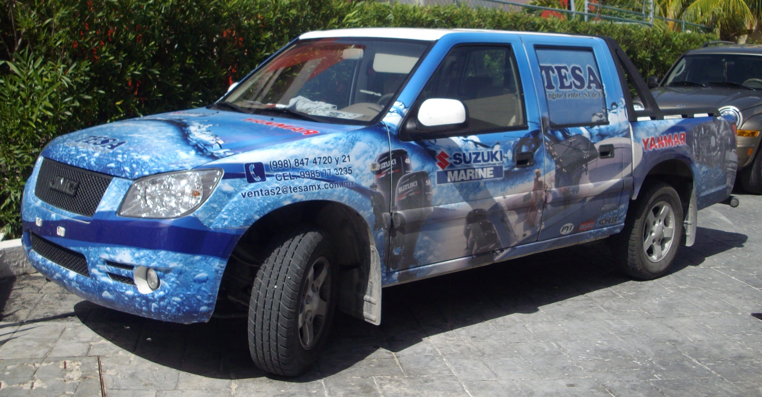 JMC Boarding (Baodian) photographed in Cancun, Quintana Roo, Mexico. This is the pickup version of the Landwind X6